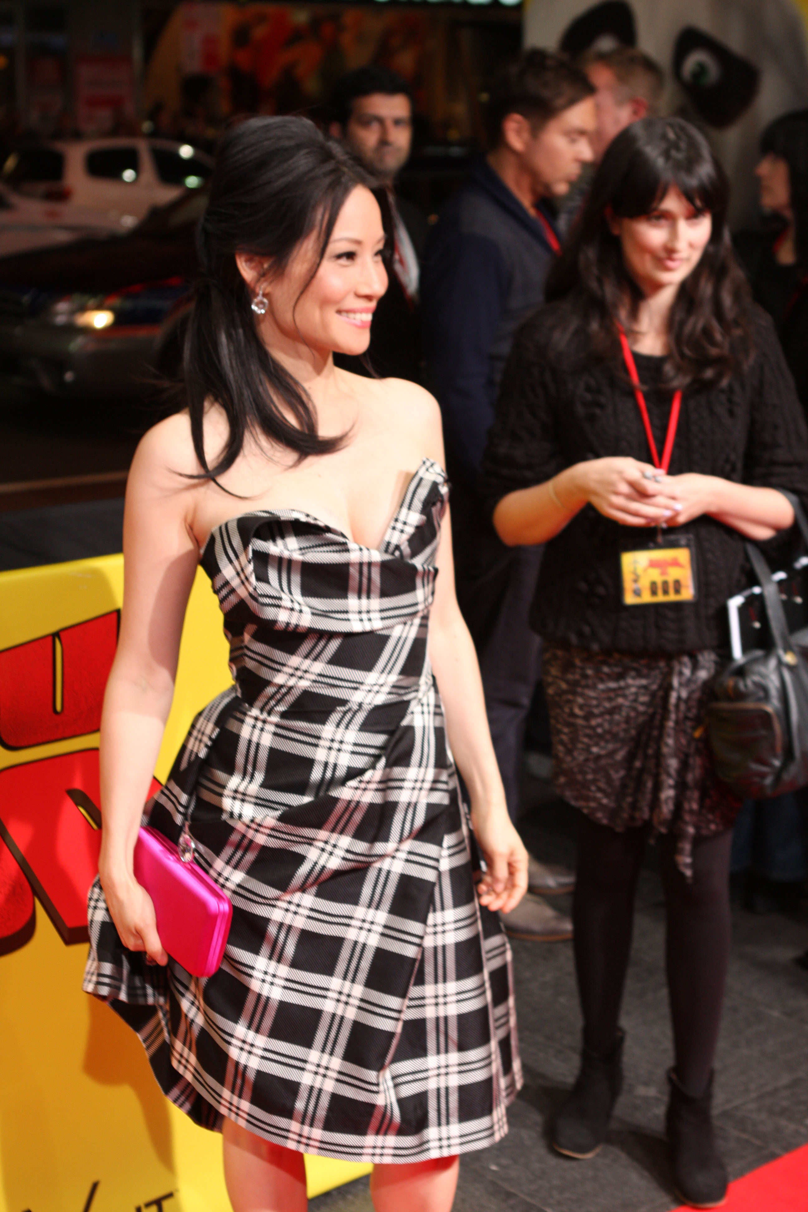 Kung Fu Panda Red Carpet Premiere